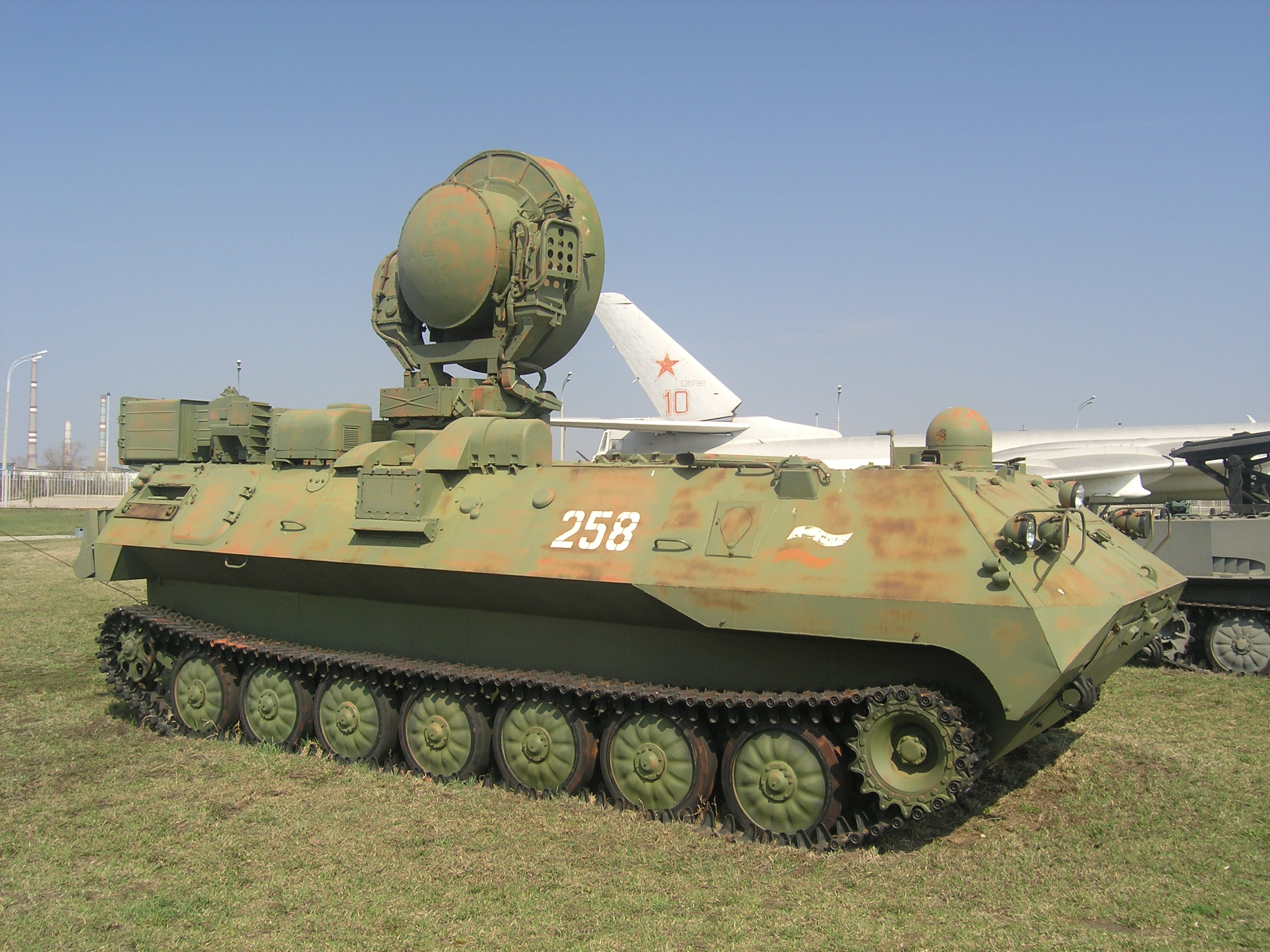 1RL239 — mobile H-band artillery locating radar in Togliatti Technical museum